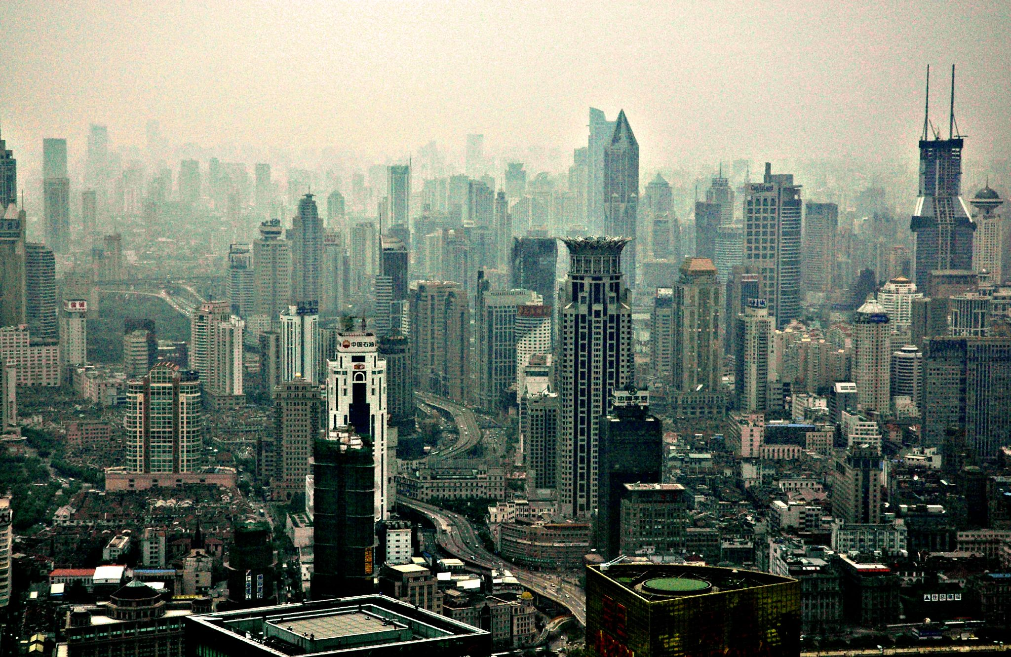 Shanghai buildings through the haze; viewed from the 88-story post-modern Jin Mao Tower.